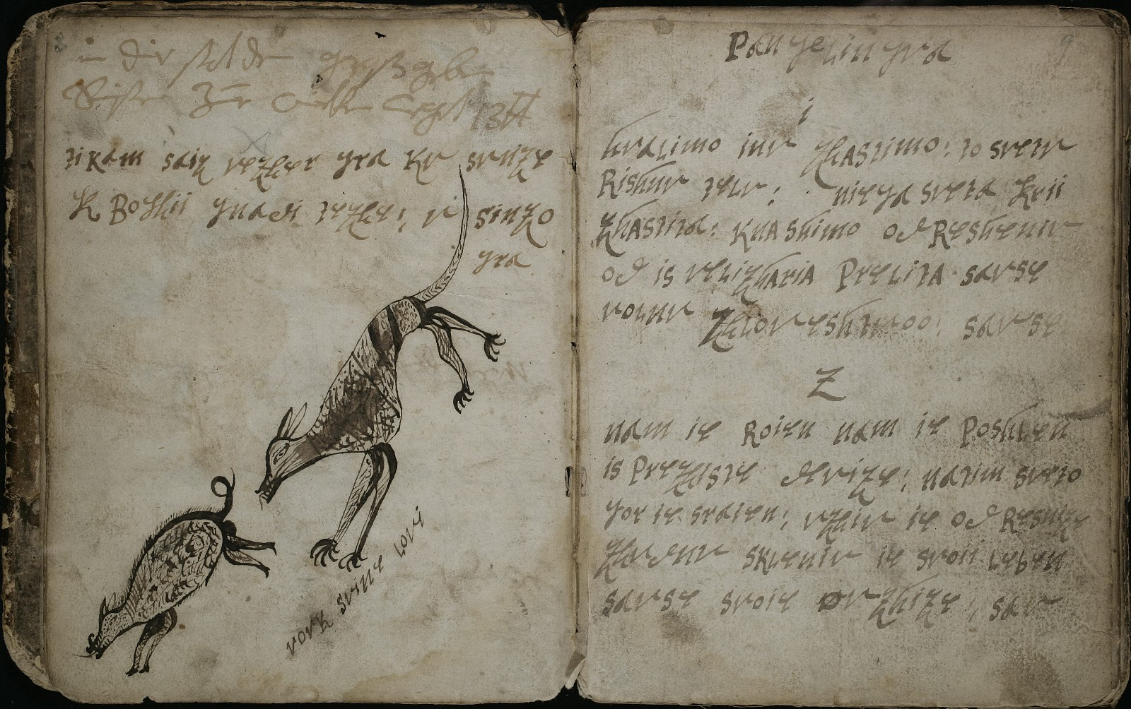 Two pages from Leše Manuscript. The inscription to the image says "A wolf hunts boars.". The manuscript is written in the Bohorič alphabet and originates from Kotlje. It is the oldest known longer written document in Slovene from the Meža Valley.